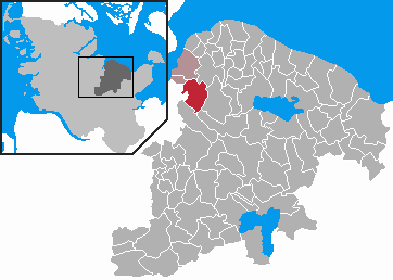 This map shows the area of the Gemeinde (municipality) Schönkirchen in the Kreis (district) Plön, Schleswig-Holstein, Germany.